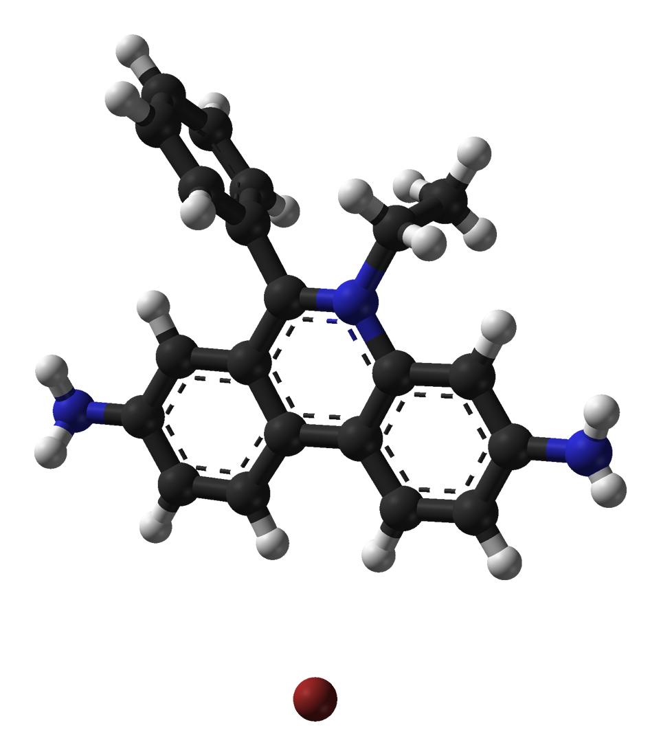 Ball-and-stick model of part of the crystal structure of ethidium bromide. X-ray diffraction data from J. Cryst. Mol. Struct. (1971) 1, 3-. Model constructed in CrystalMaker 8.1. Image generated in Accelrys DS Visualizer.